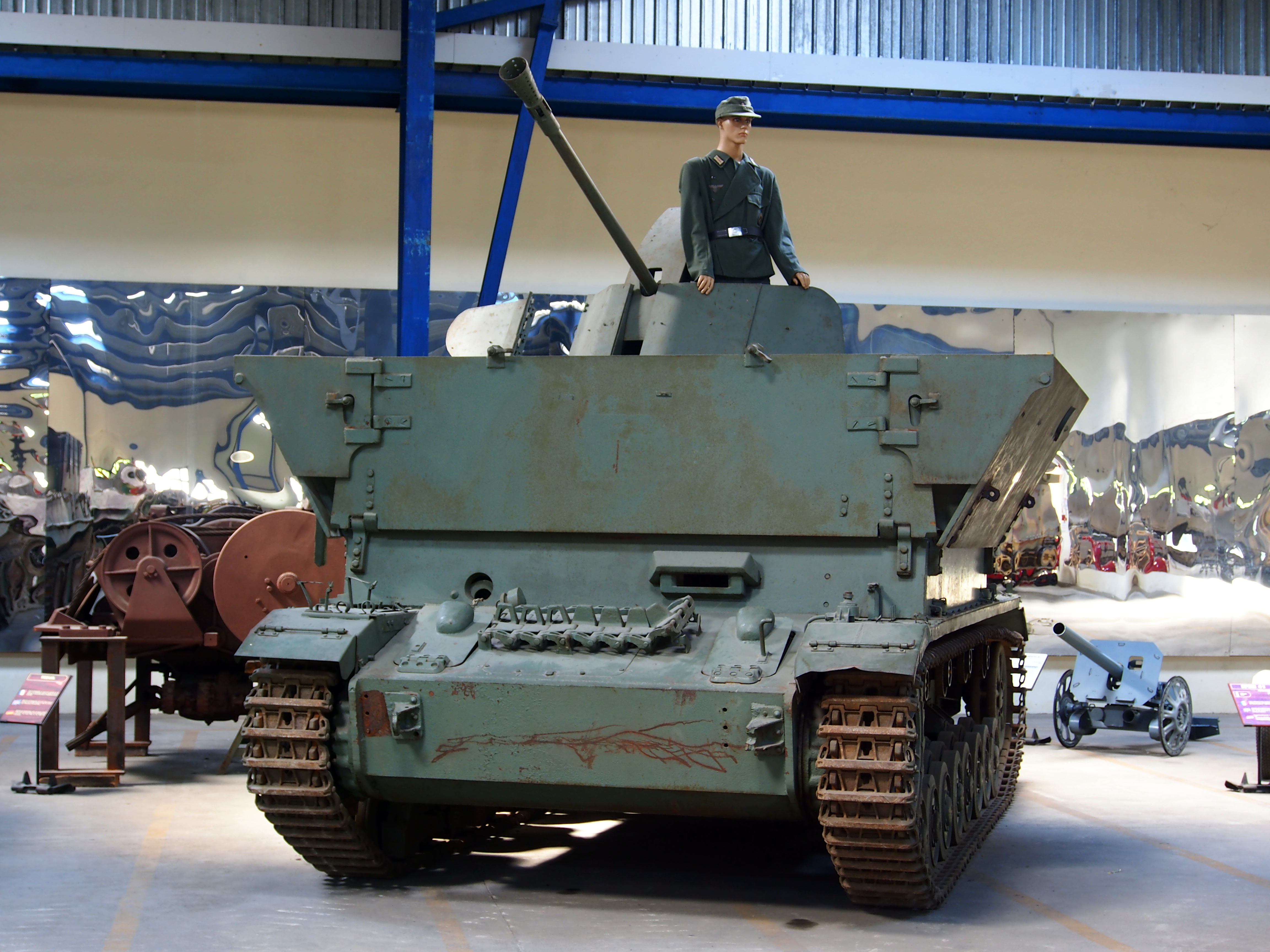 Photographed in the Musée des Blindés, France.